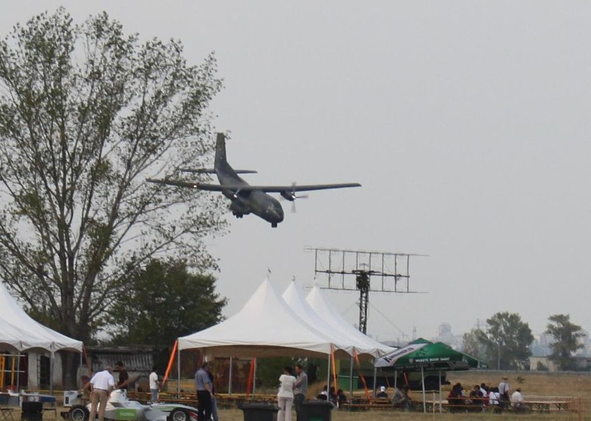 "Sarajevo-Approach"